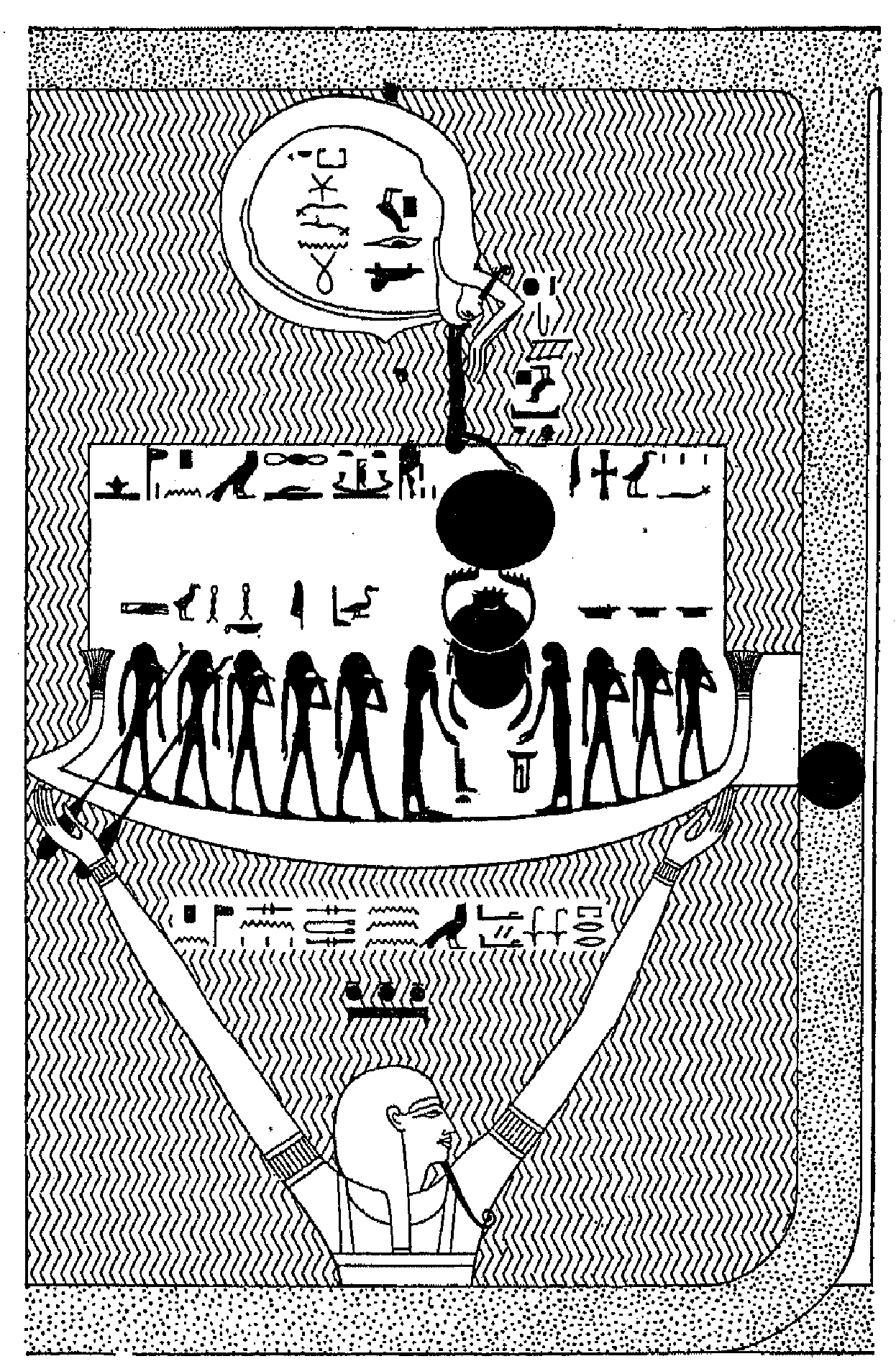 THE CREATION. The god Nu rising out of the primeval water and bearing in his hands the boat of Rā, the Sun-god, who is accompanied by a number of deities. In the upper portion of the scene is the region of the underworld which is enclosed by the body of Osiris, on whose head stands the goddess Nut with arms stretched out to receive the disk of the sun.